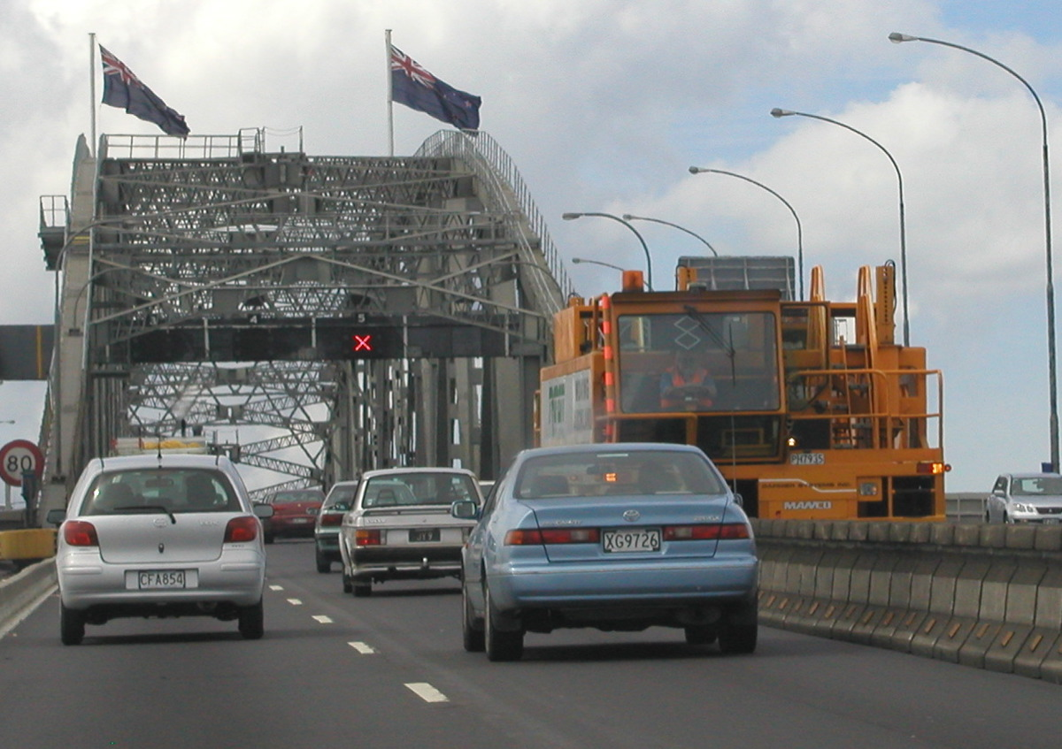 This large machine was used on the Auckland Harbour Bridge to shift the centre lane back and forth to accommodate rush hour traffic. The bridge has extra lanes hung to its original sides, a Japanese engineering feat affectionately called the "Nippon Clipons"